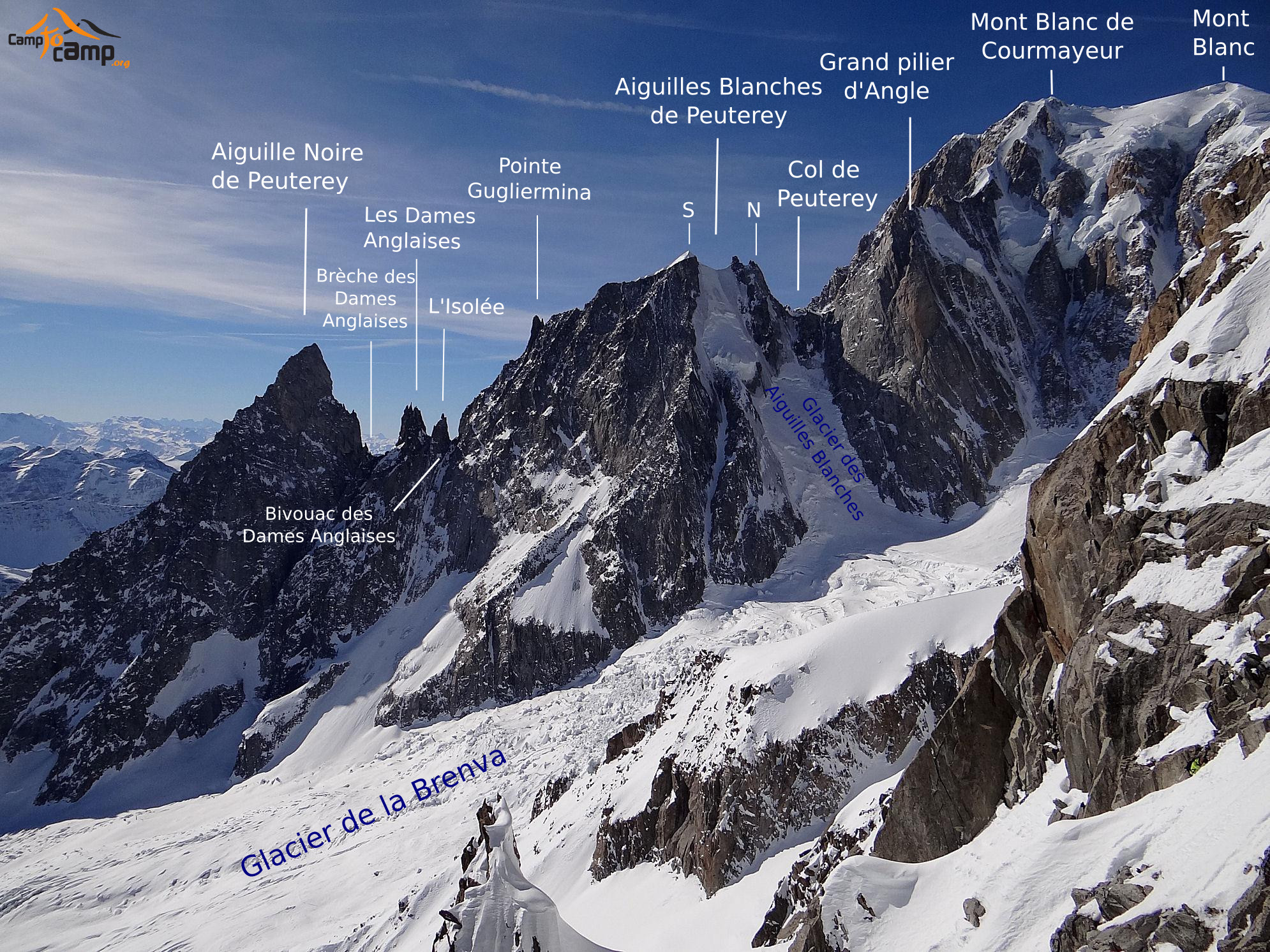 Peuterey ridge